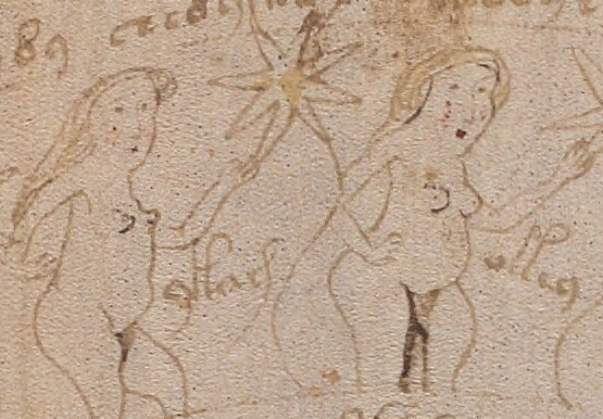 Detail of Voynich Manuscript, page 131, f72v3, showing retouching of drawing